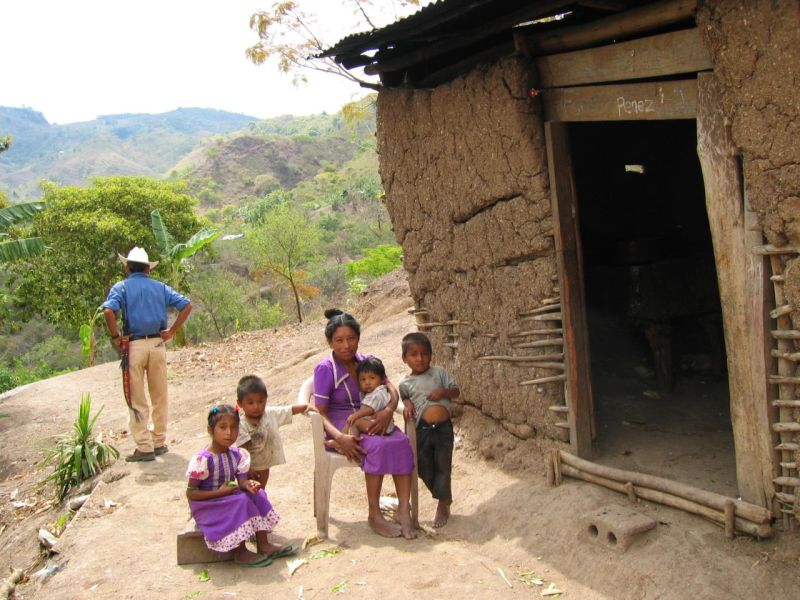 House with family in a small mountain village in the mountains of Copan, Honduras, at the border to Guatemala. .